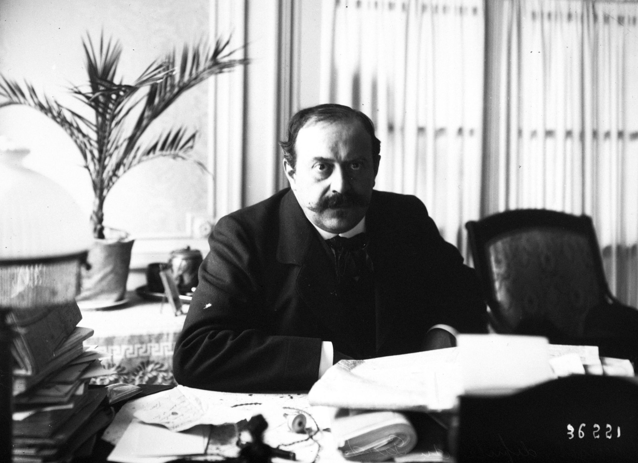 Photograph of Andrieu Borguet